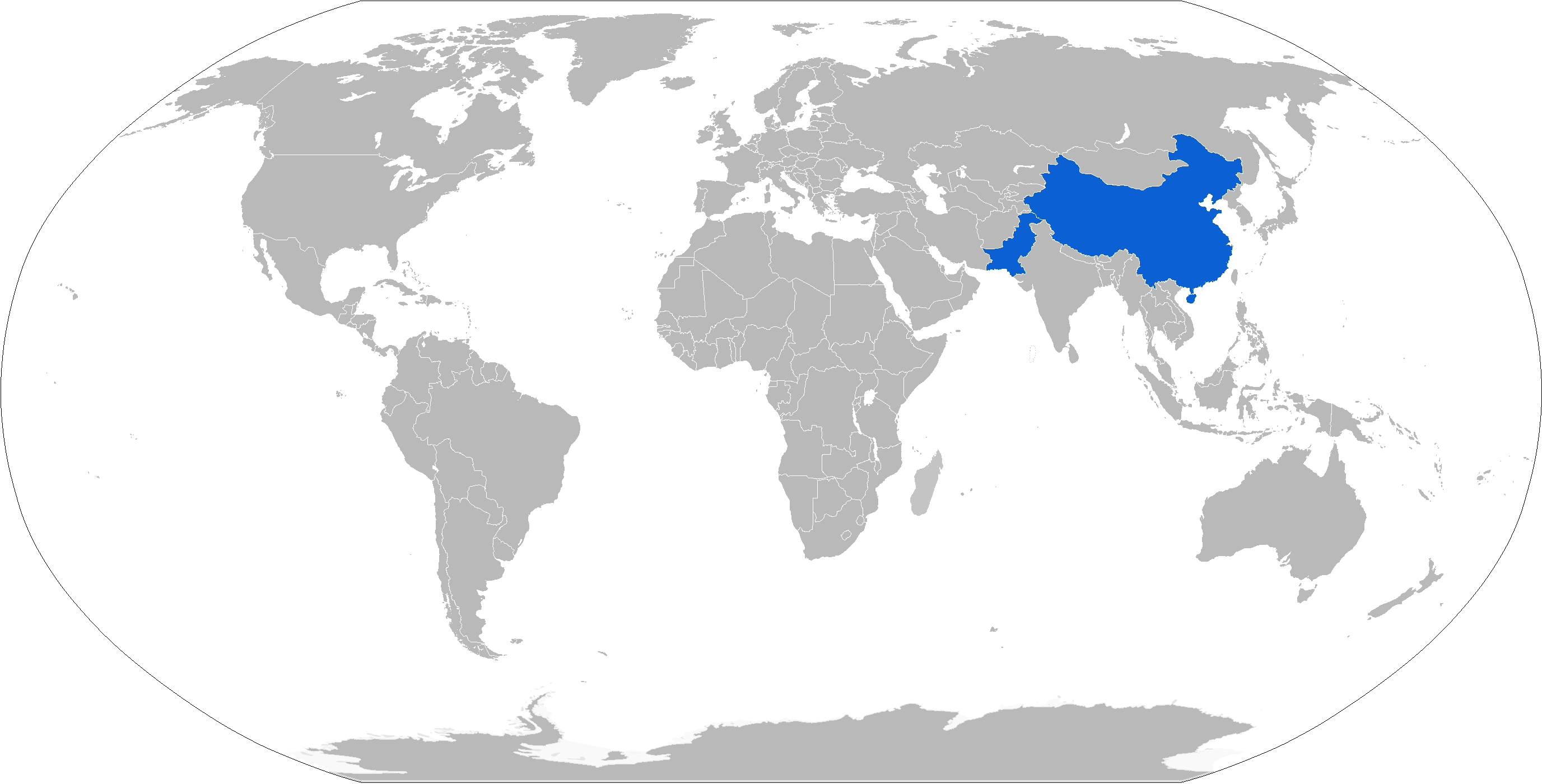 Map with LY-60 operators in blue